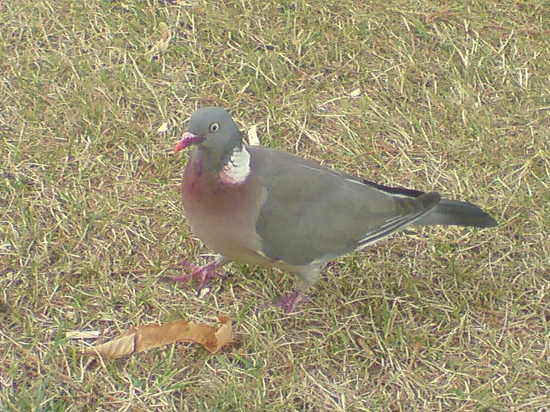 A wood-pigeon (Columba palumbus) in Kew Gardens, England.